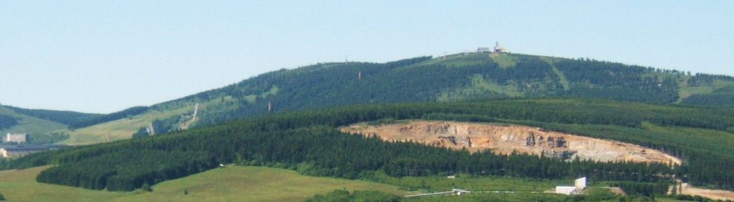 Cropped panorama view from Hoher Stein near Neugeschrei (Nové Zvolání) in the Czech Ore Mountains. You can see the Fichtelberg